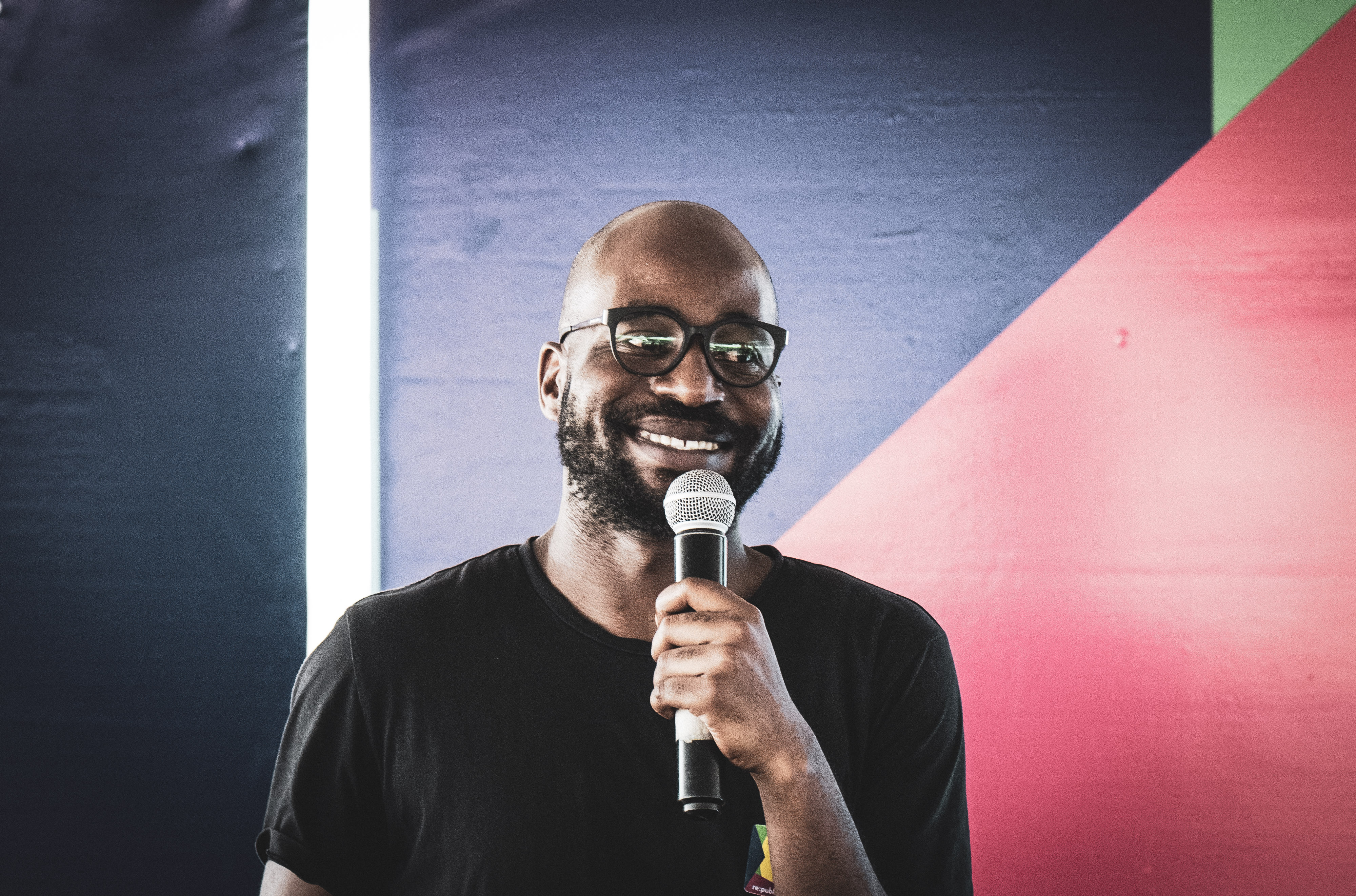 re:publica Accra 2018, 14. - 15 Dezember 2018, Lifestyle selection by Linus Petit Photo Credits: Linus Petit